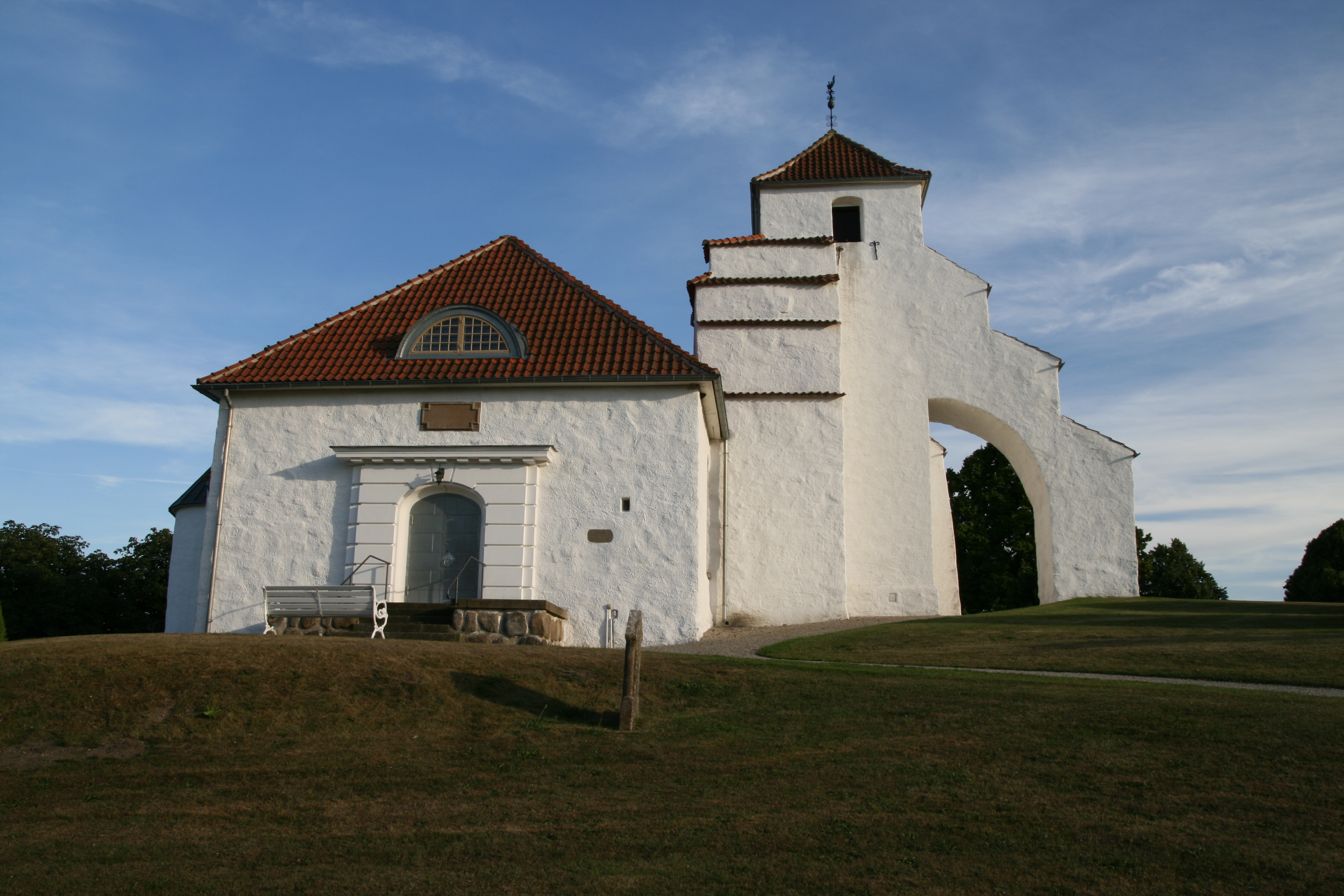 The exterior of Vitaby kyrka in Sweden.